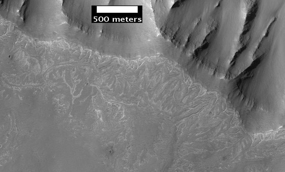 Channels near Ius Chasma, as seen by hirise. Location is 8 S and 275.9 E.